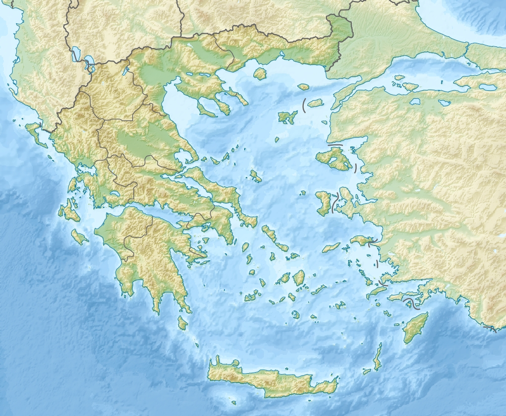 Location map of Greece Equirectangular projection, N/S stretching 120 %. Geographic limits of the map: * N: 42.0° N * S: 34.6° N * W: 19.1° E * O: 29.9° E